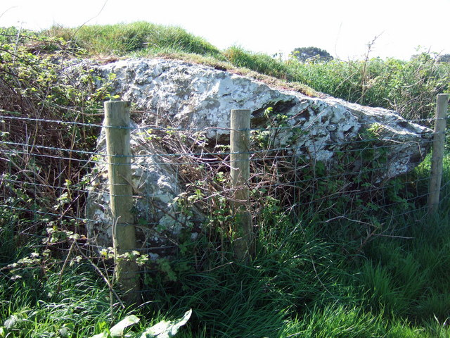 Capstone of Trewalter burial chamber The historian Richard Fenton writing in 1810 described this stone as measuring 14 feet by 8 feet, and supported on four massive stones 2/3 feet high. The intact monument must have been an impressive sight. One upright survives and there could be others underneath but time, and (one suspects) farmers, have not served this grave well. The capstone, which is deeply pocked and pitted, supports a thick matting of stonecrop.